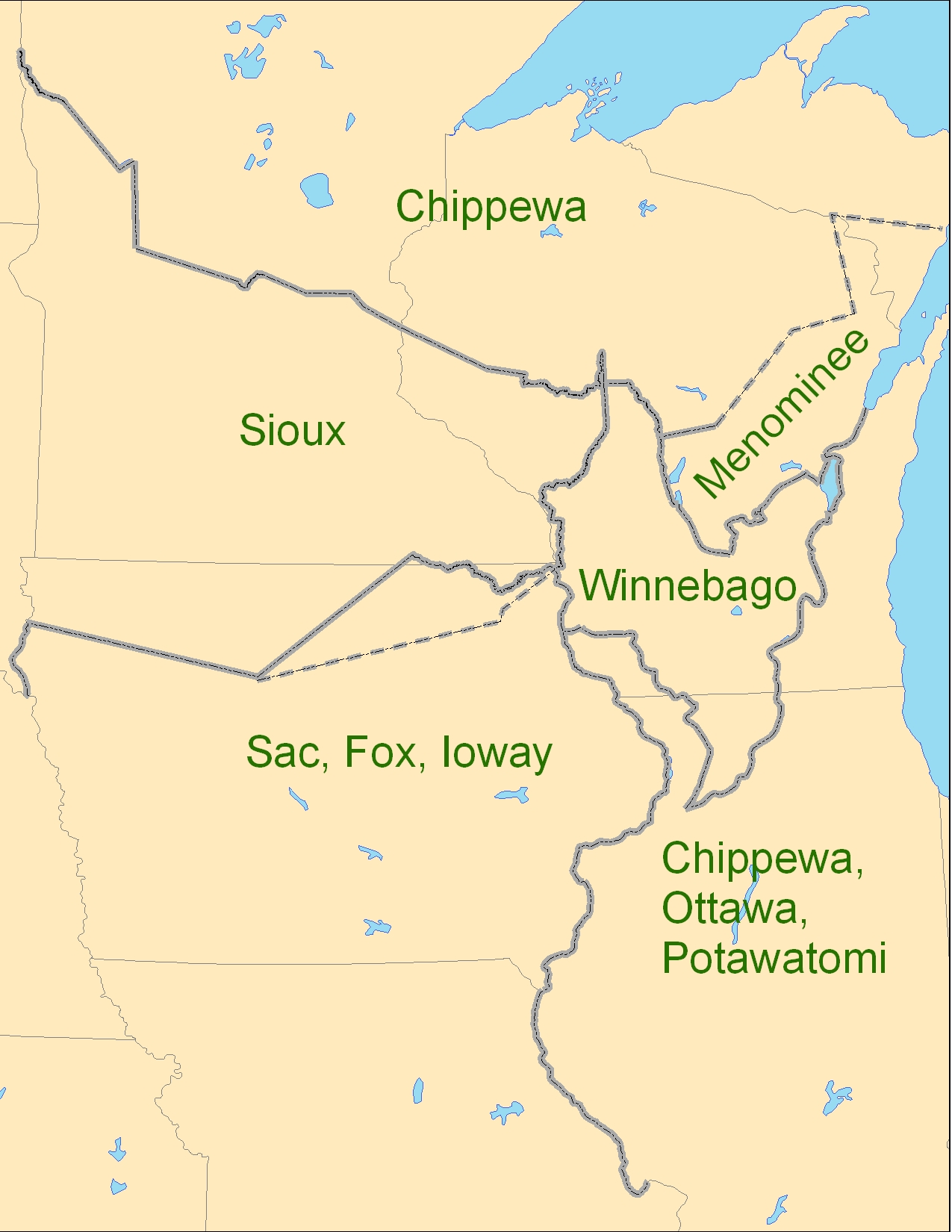 Map showing the boundaries between the Sioux (Dakota), Chippewa (Ojibwe), Winnebago (Ho-chunk), Menominee (Menomini), Sauk and Fox (Sac and Fox Nation), Ioway, and the Chippewa-Ottawa-Potawatomi (Council of Three Fires) as per 1825 Treaty of Prairie du Chien